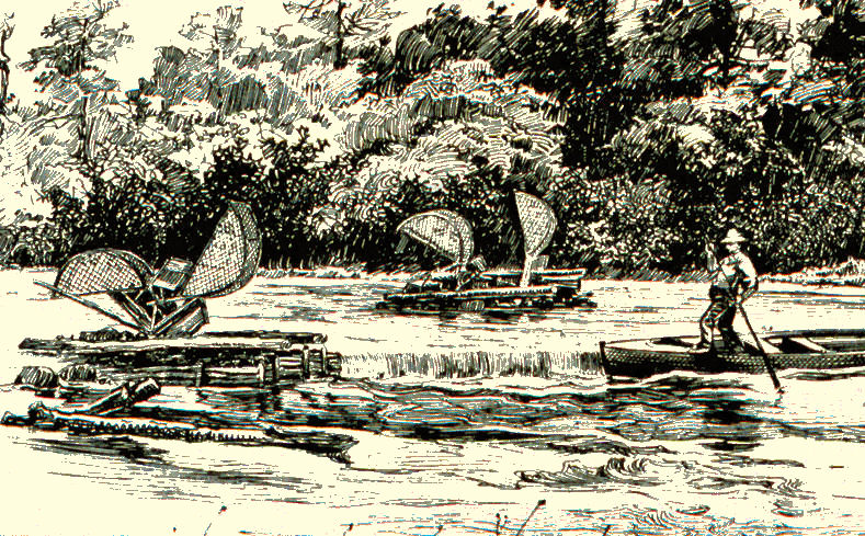 Nat. Oc. AA